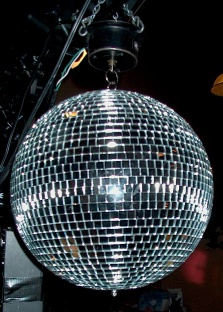 Disco ball close up. Taken by Dr Haggis on 18SEP04.